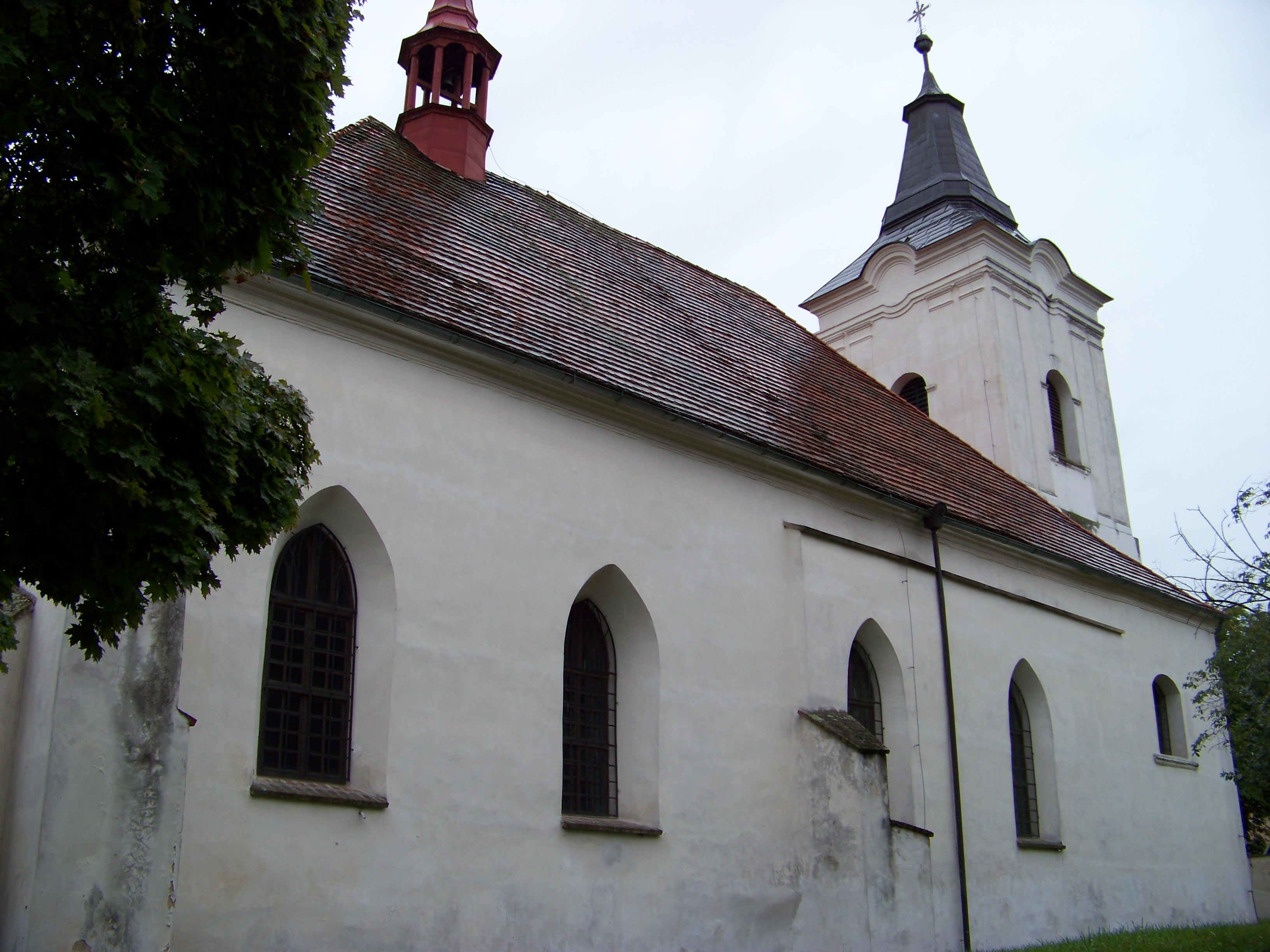 Volyně, Strakonice District, South Bohemian Region, Czech Republic. All Saints Church. - OpenStreetMap(Info)